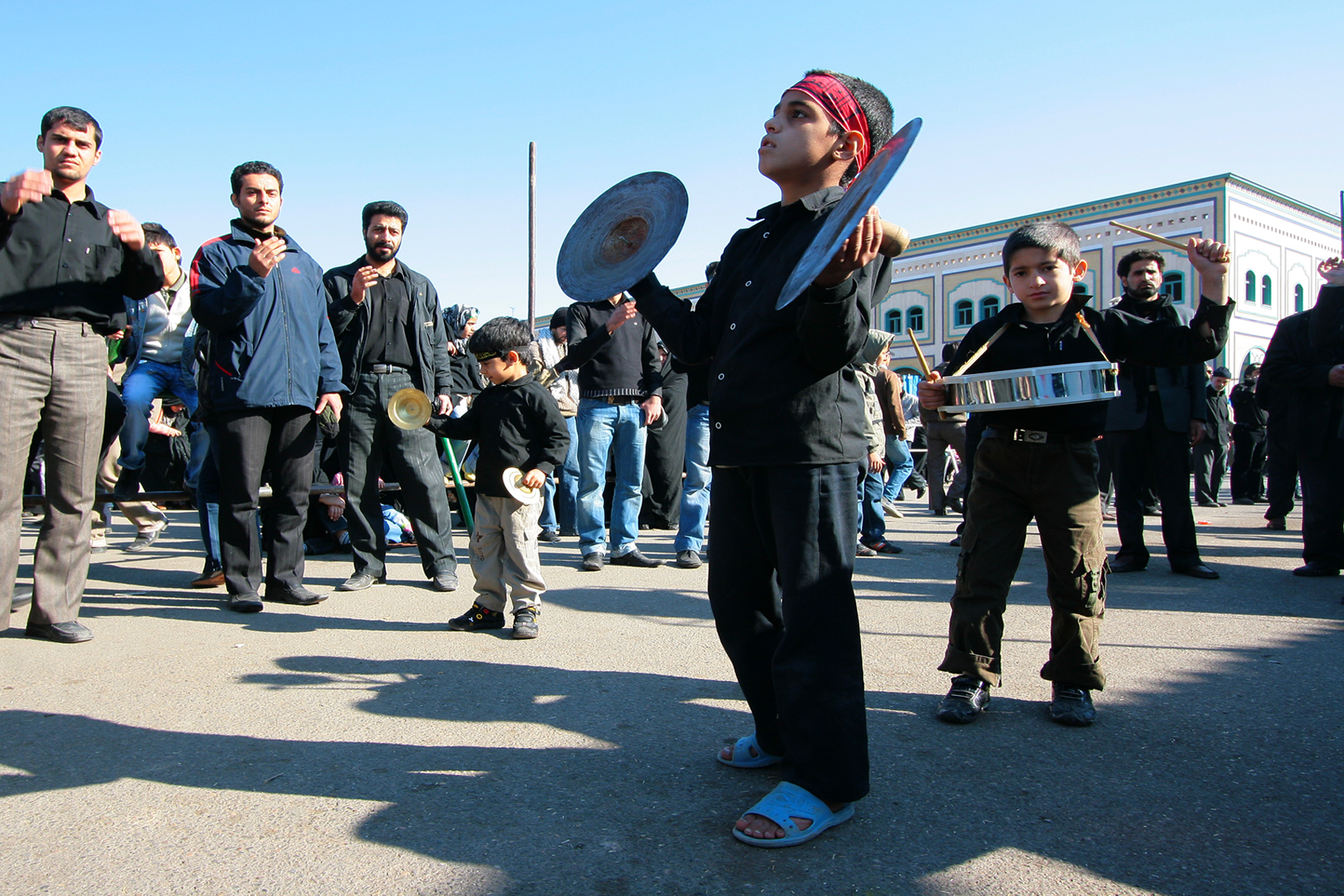 Mourning of Muharram